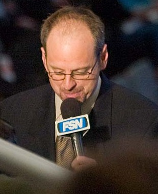 Daryl Reaugh Color Analyst and Ralph Strangis Play-By-Play Announcer for the Dallas Stars Dallas Stars vs. San Jose Sharks